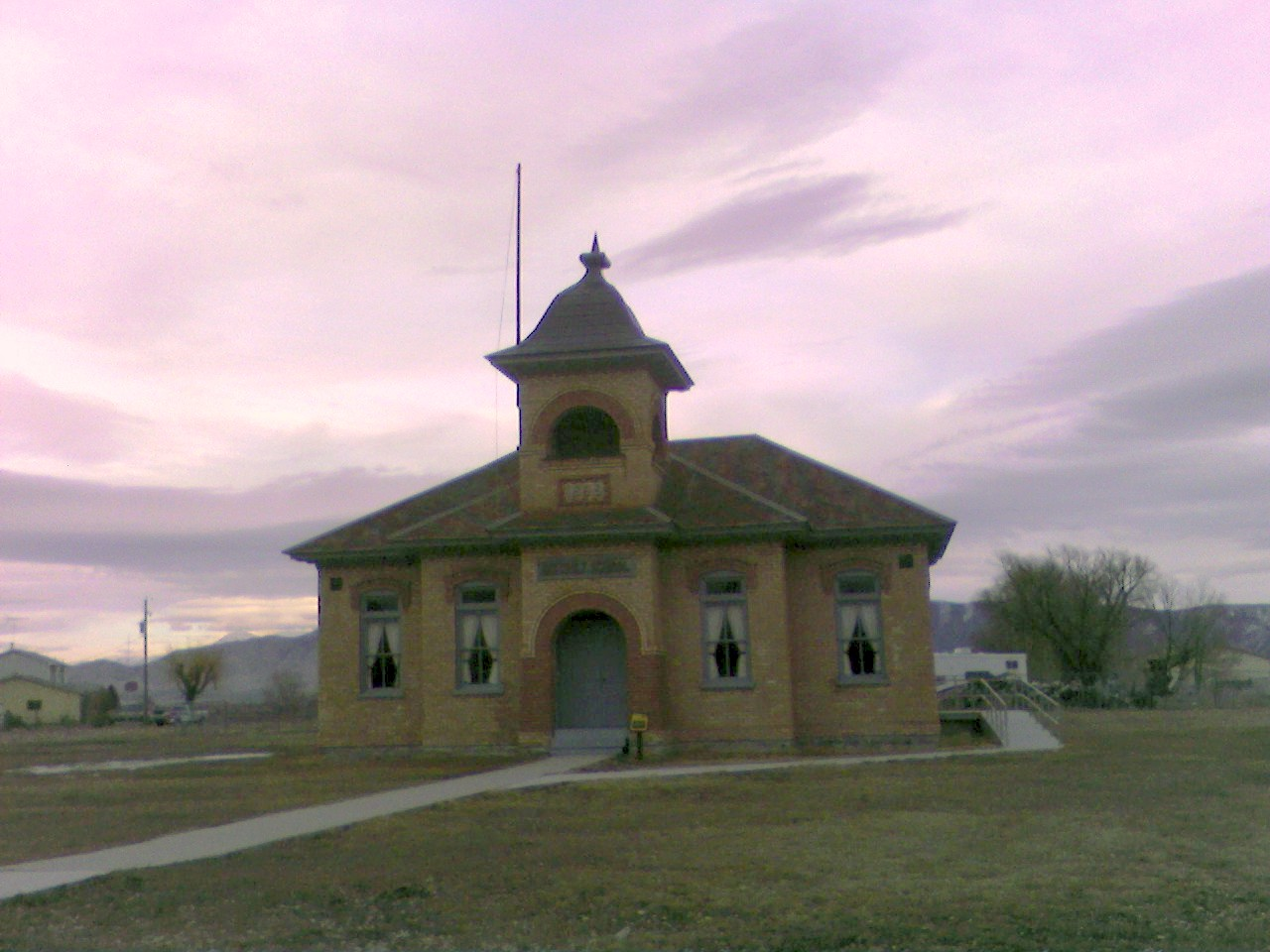 Old Fairfield Schoolhouse, Fairfield, Utah by David Jolley 2007.